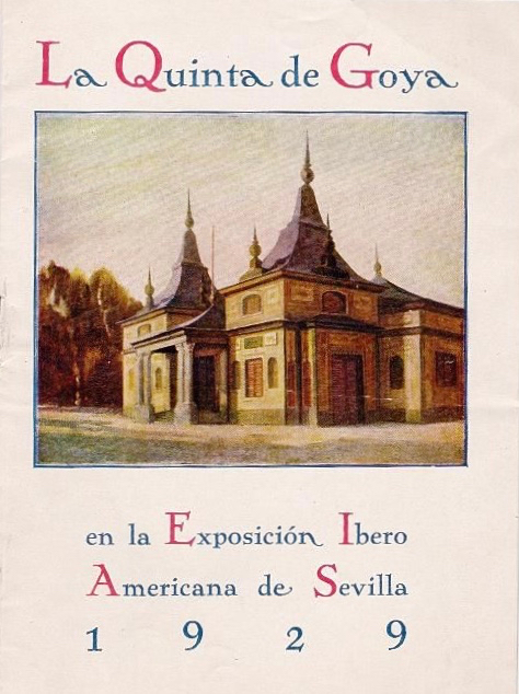 Catalogue cover of Quinta de Goya pavillion of the Ibero-American Exposition in Seville, Spain (1929)